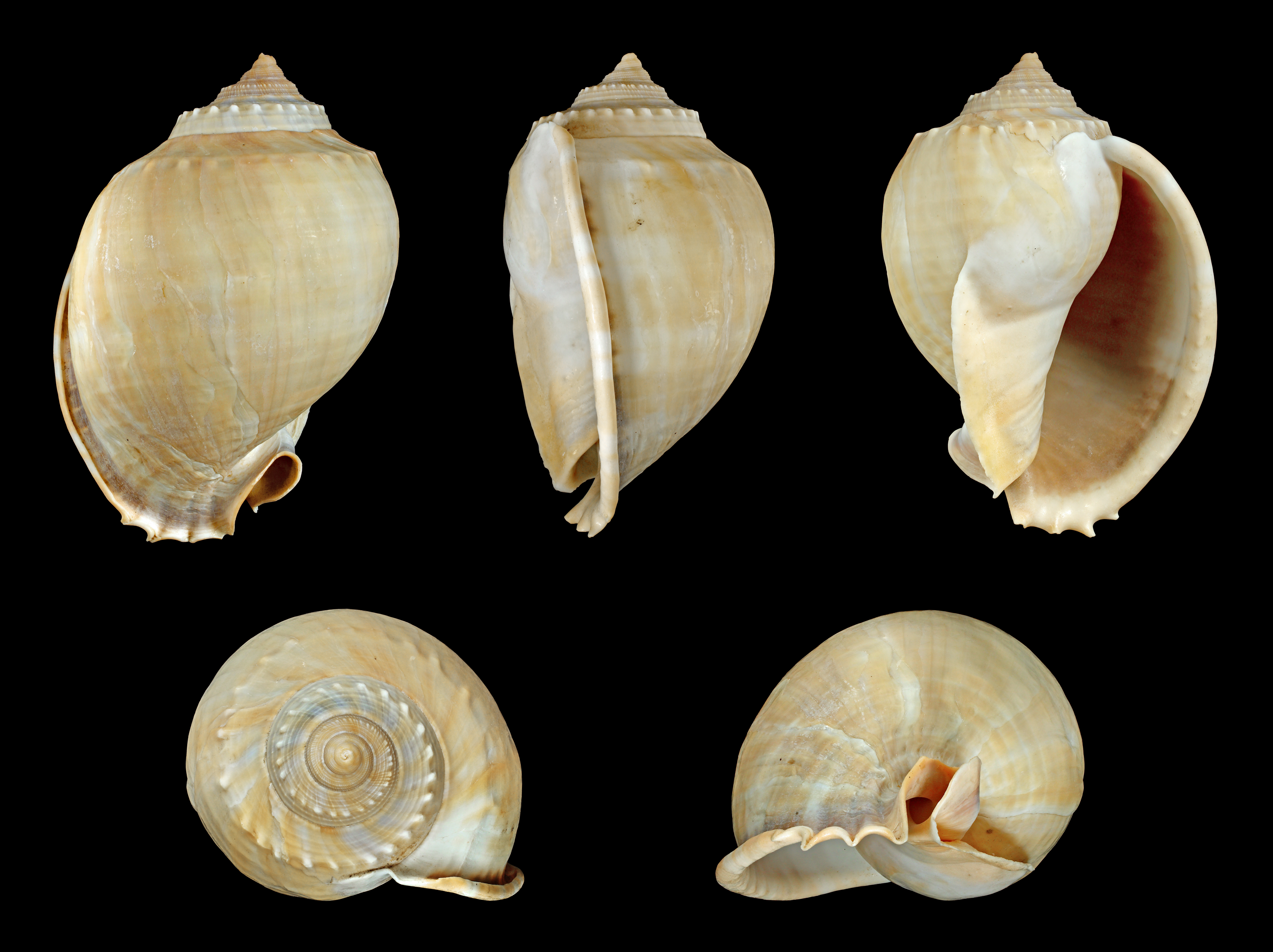 Grey Bonnet; Length 12.3 cm; Originating from the Philippines; Shell of own collection, therefore not geocoded. Dorsal, lateral (right side), ventral, back, and front view.